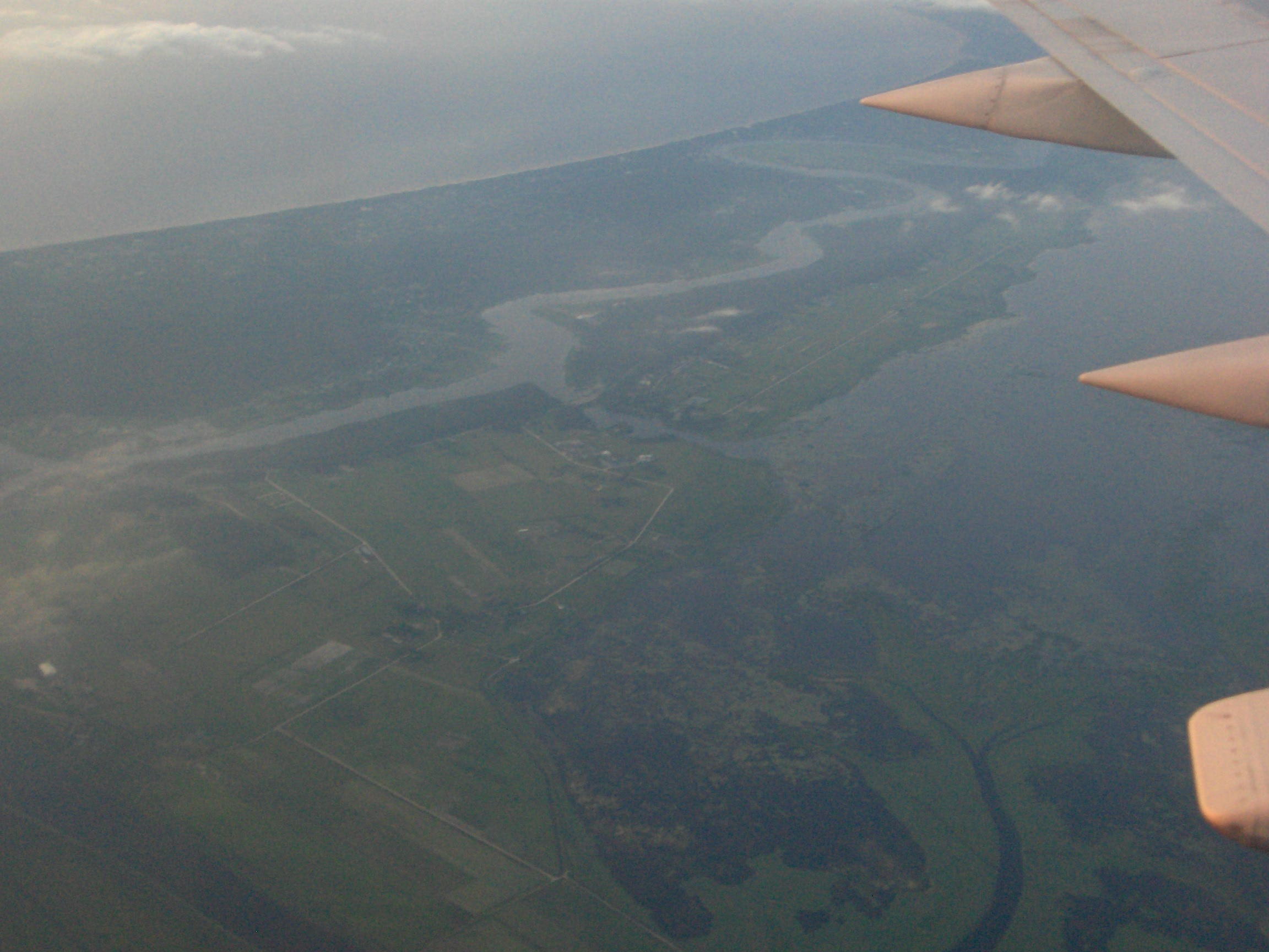 Lake Babites